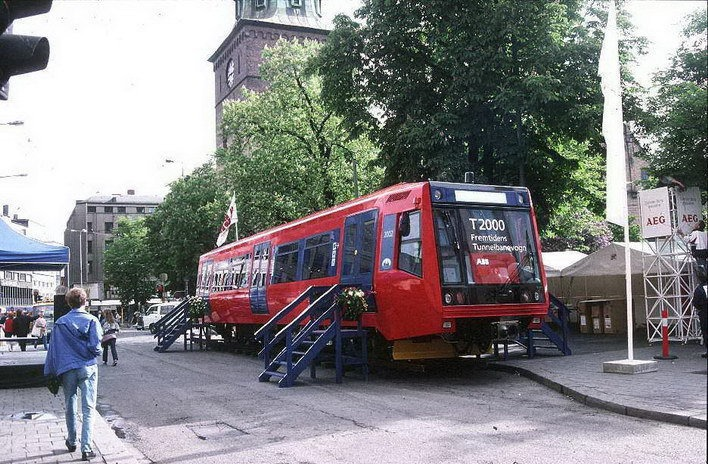 A T2000 of the Oslo Metro at display in Kirkegata at Stortorvet and Domkirkeparken